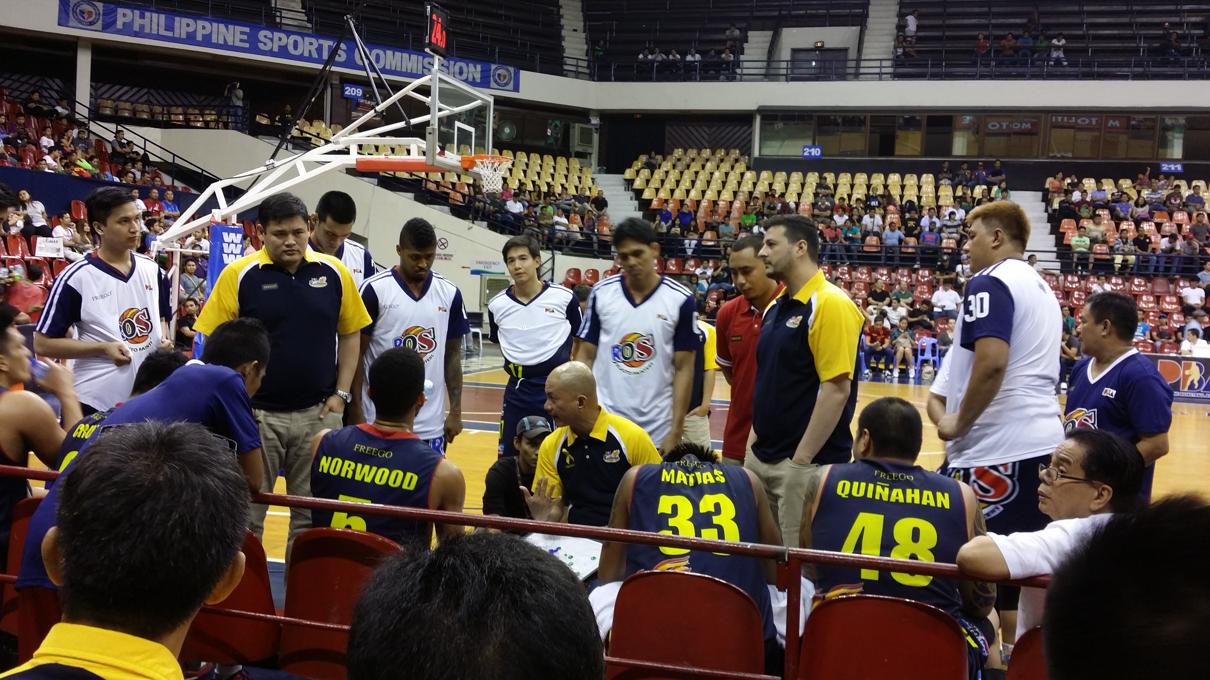 Rain or Shine Elasto Painters team huddle (2015-1113)